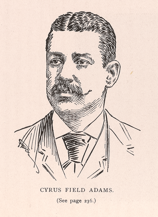 This image of Cyrus Field Adams accompanied a feature on Adams in the September 1900 issue of The Afro-American Council. Cyrus Field Adams was a Republican civil rights activist, author, teacher, newspaper manager and businessman.